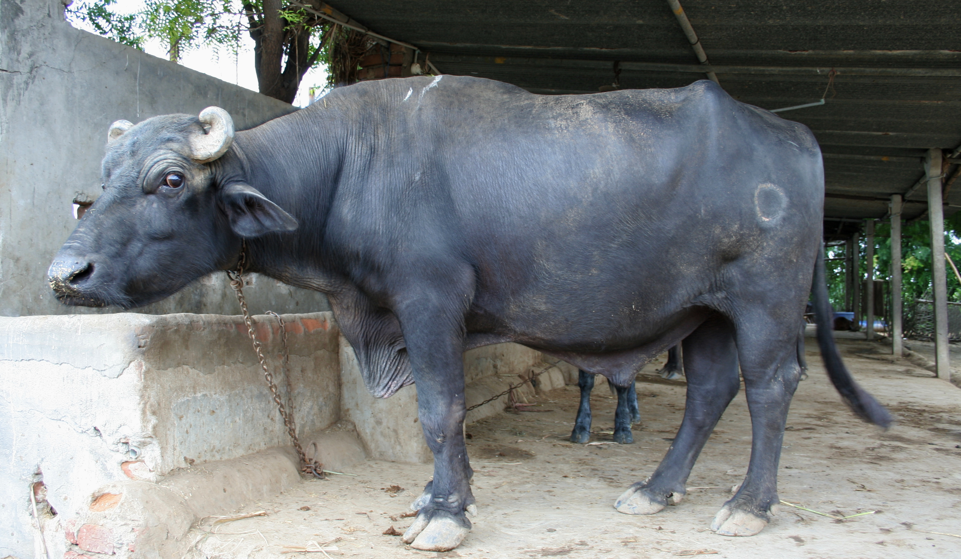 Water buffalo bull, near Mehsana, Gujarat, India.